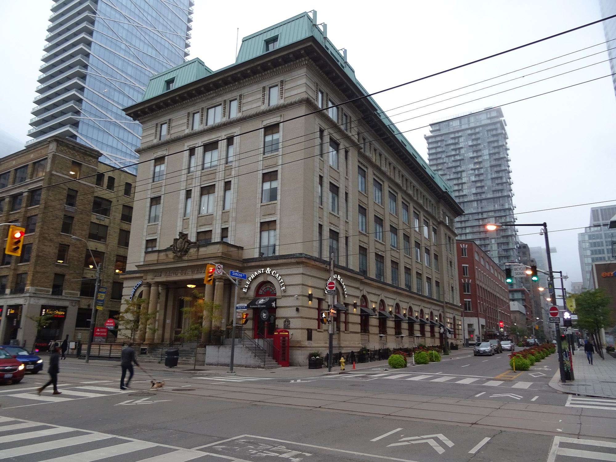 The Canadian General Electric Company Building - 212 King Street West, Toronto, ON M5H 1K5, Canada